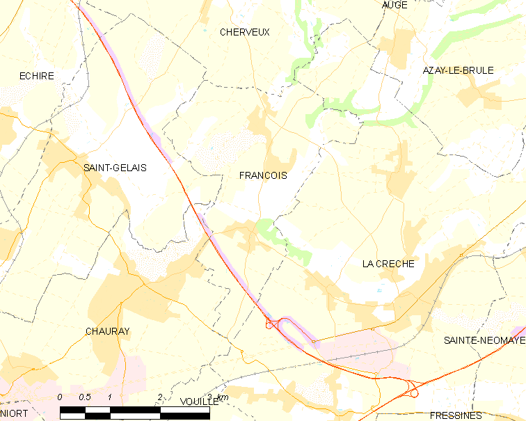 Map of French municipality François